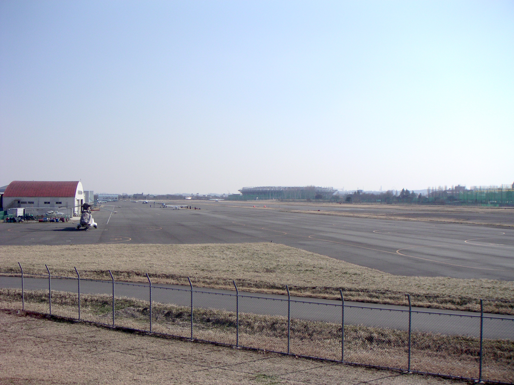 Chofu airport